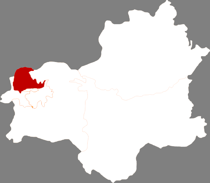 Location of Shuncheng district in Fushun City, China